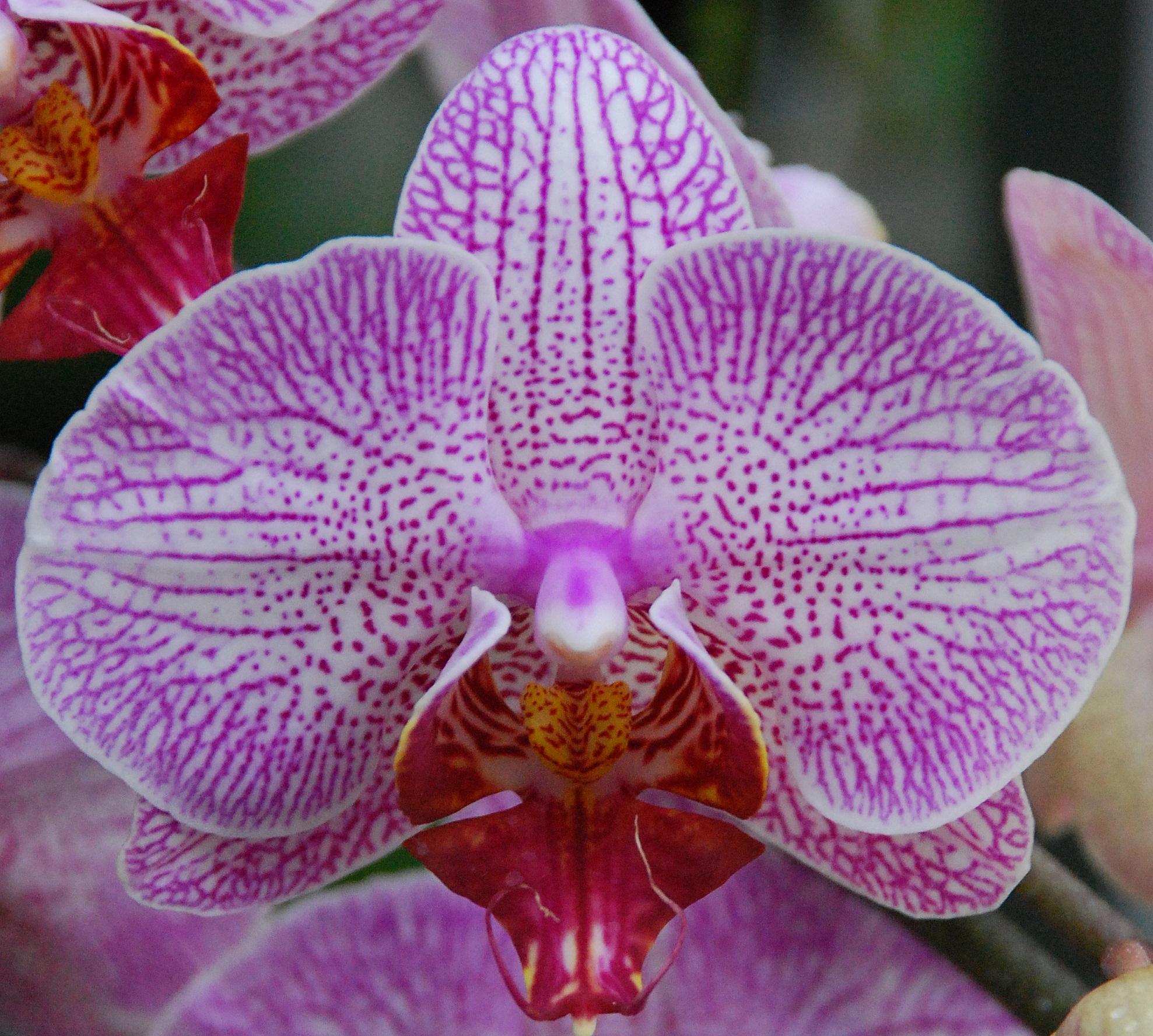 Picture of Phalaenopsis hybrid, a member of the Orchid Family, (Phalaenopsis cultivar)